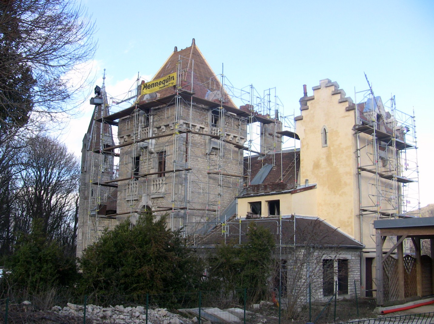 The "castel of the jewish" located in Besançon (Doubs, France).